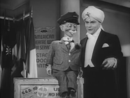 Cropped screenshot of Edgar Bergen with Mortimer Snerd from the film Stage Door Canteen.